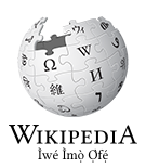 Wikipedia logo 2.0 (temporary placeholder)